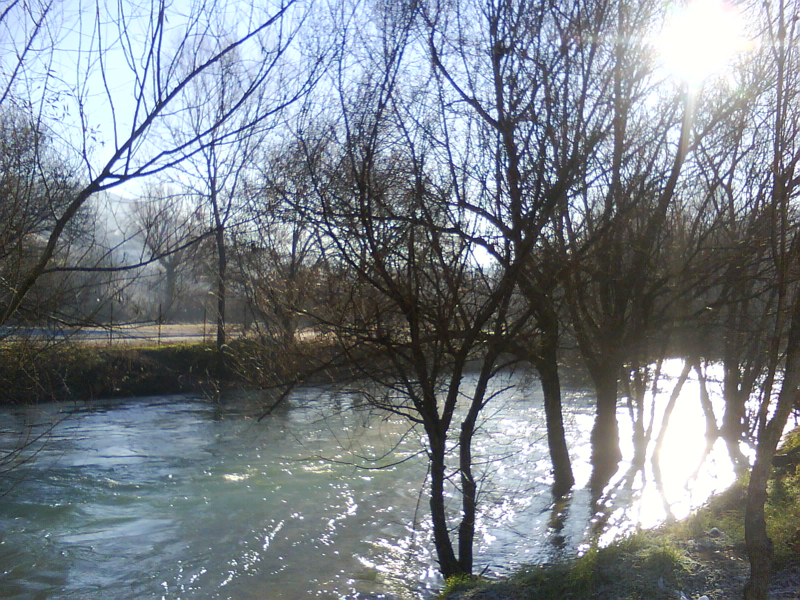 Lištica river in Široki Brijeg